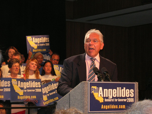 A photograph by Brian Leubitz of (aka utbriancl on Wikipedia) of CDP Chair Art Torres speaking at a Phil Angelides for Governor Rally.